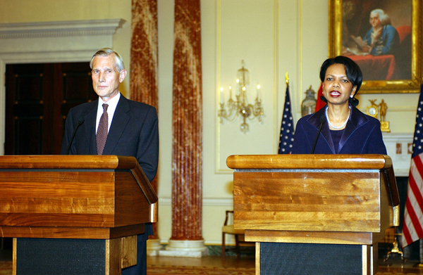 Secretary Rice met with His Excellency Bernard Bot, Minister of Foreign Affairs of the Kingdom of the Netherlands.